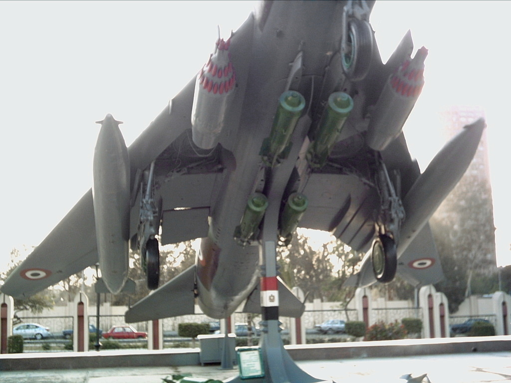 Soviet-built Su-20 Armament, October war panorama in Cairo.